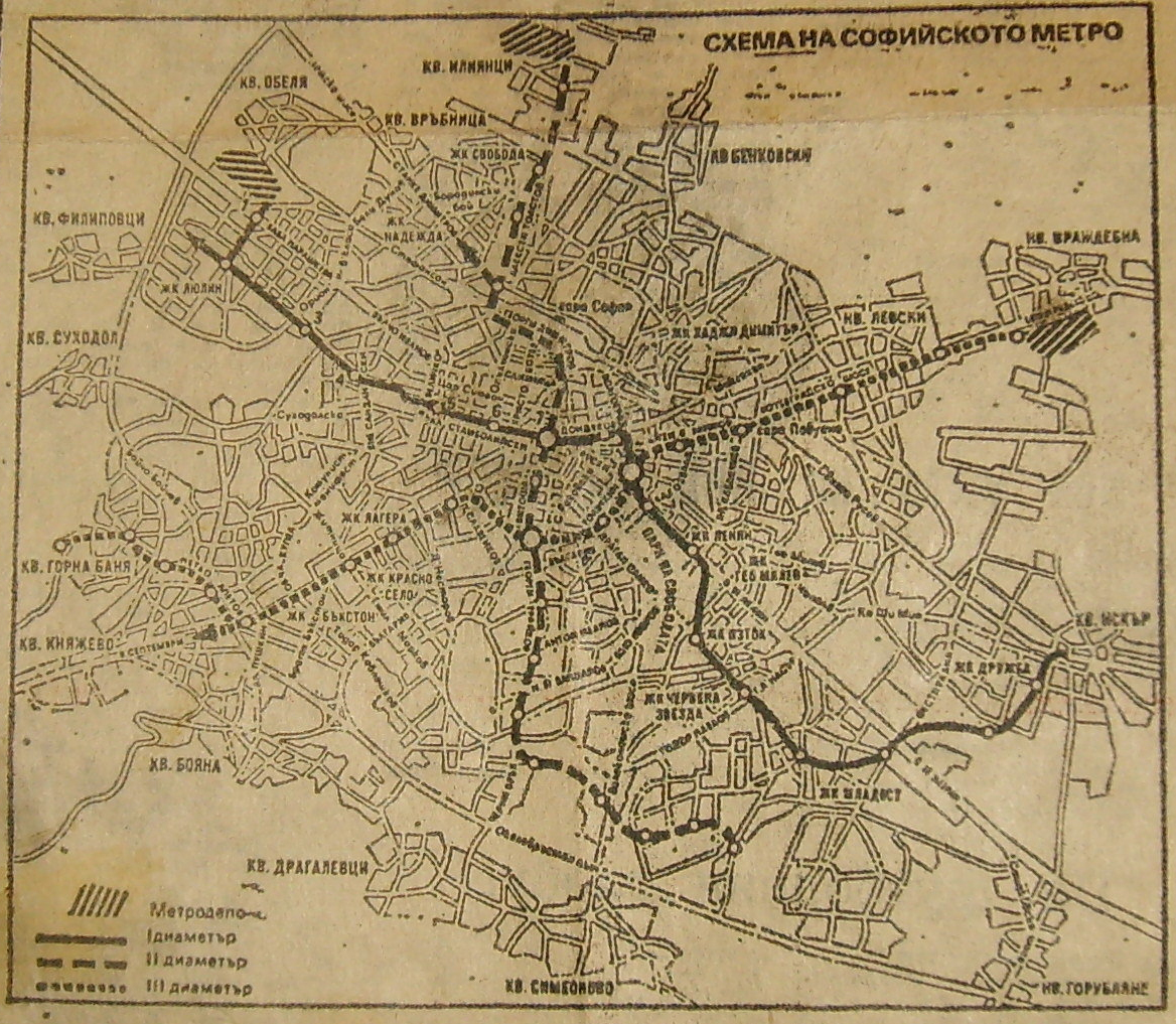 First overview plan of the metro network of the Bulgarian capital Sofia from 1970